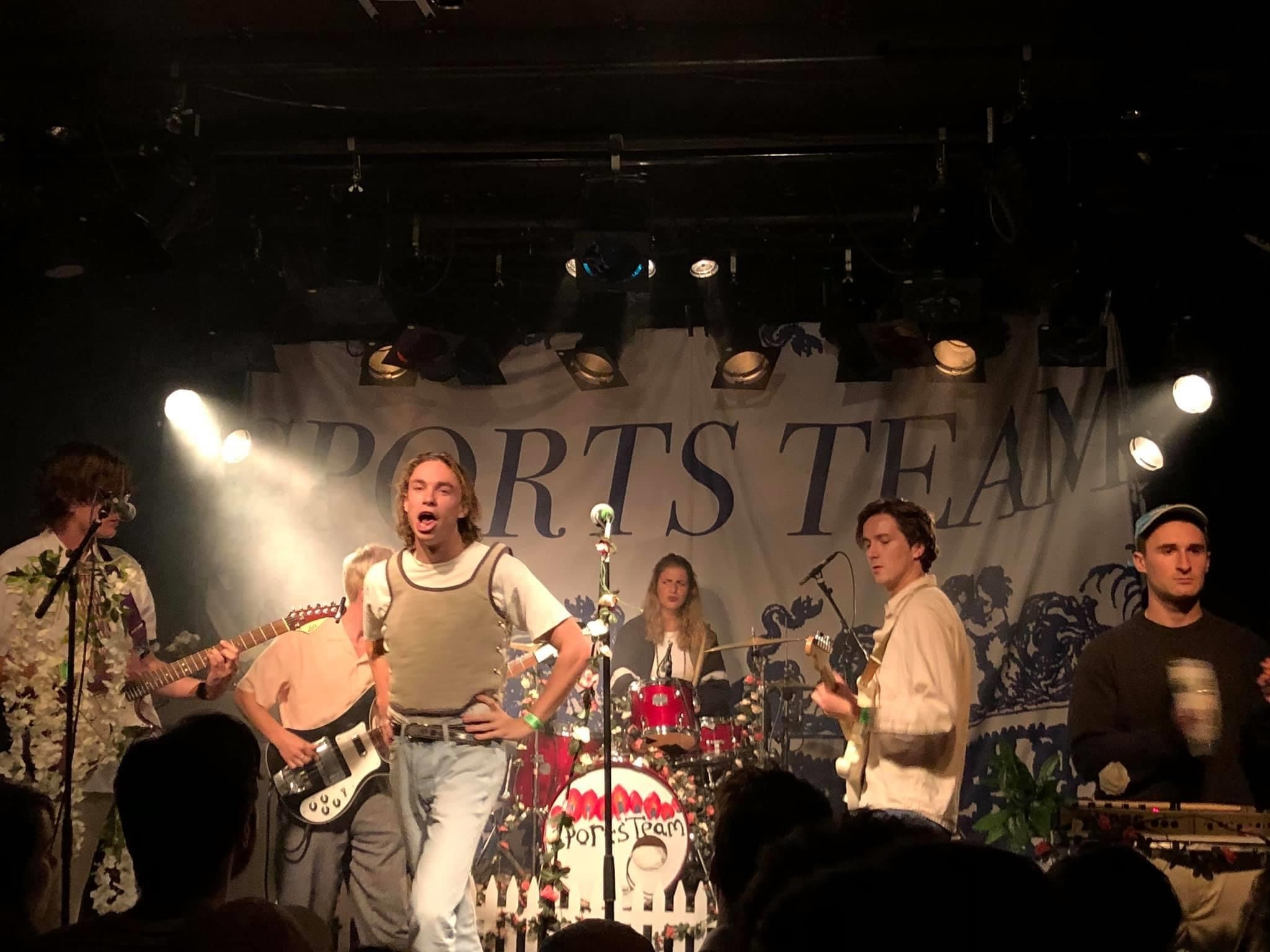 UK indie band Sports Team playing Rotown, Rotterdam